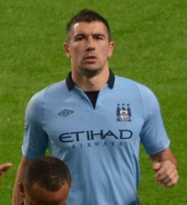 Aleksandar Kolarov, player of Manchester City FC.